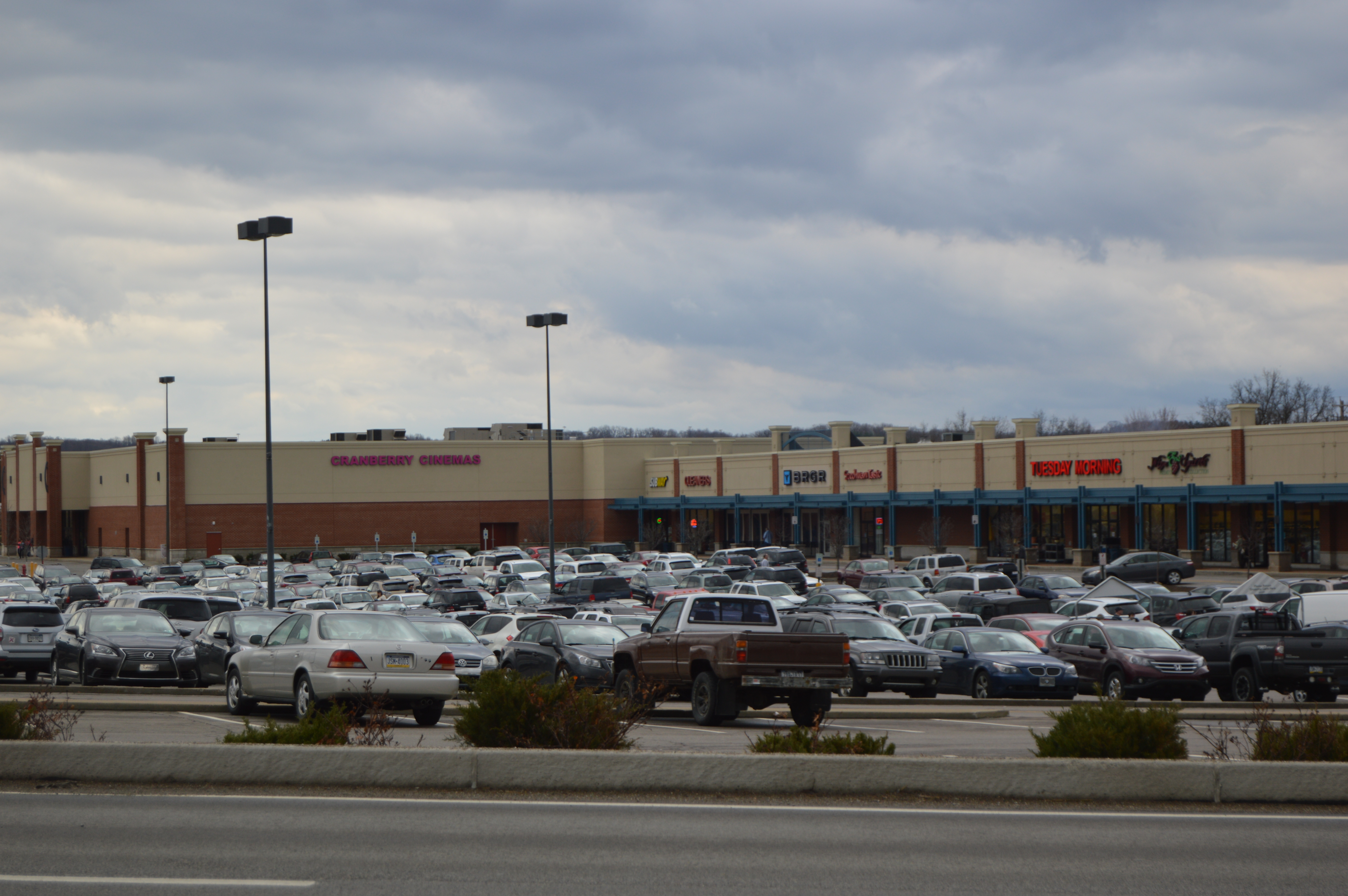 Extensive parking lots surrounding the Cranberry Mall shopping complex in Cranberry Township, Butler County, Pennsylvania, United States. Photo looks south from Freedom Road just east of the Pennsylvania Turnpike bridge.